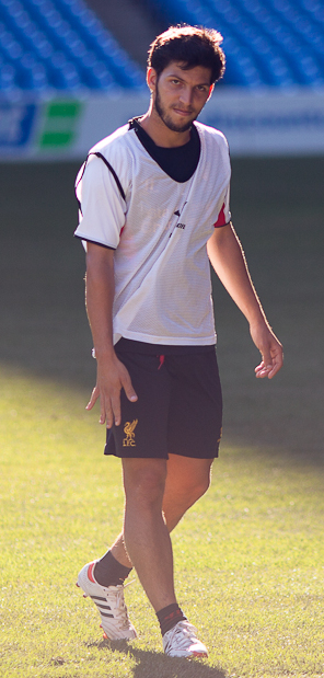 Daniel Pacheco during Liverpool training session in Toronto, 21-07-2012.